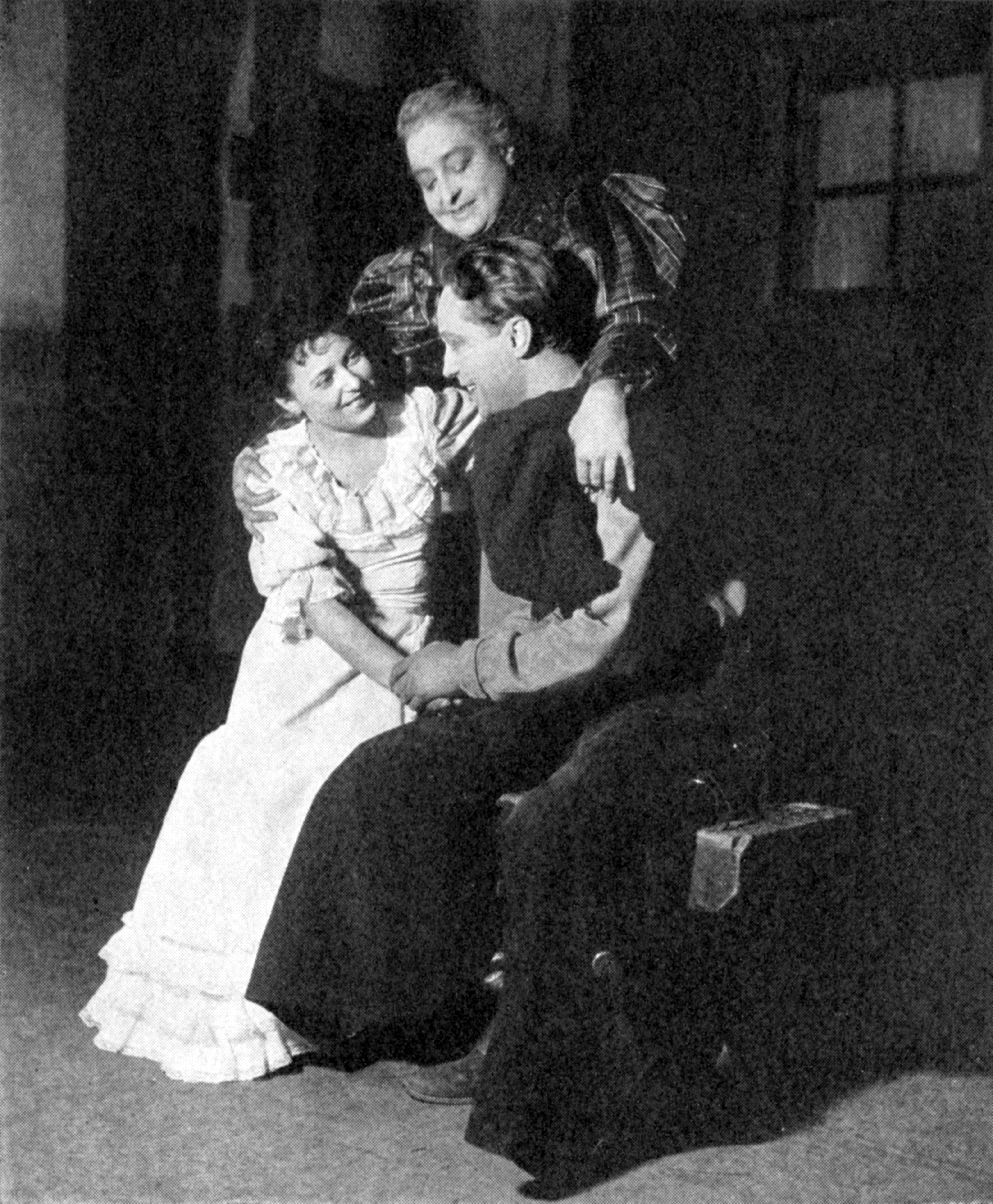 Promotional photograph for the Broadway production of Green Grow the Lilacs Caption reads as follows: Miss June Walker, Miss Helen Westley, and Mr. Franchot Tone in "Green Grow the Lilacs," current at the Guild Theatre Internet Broadway Database